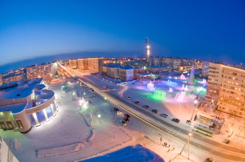 Central square in winter (Novy Urengoy)